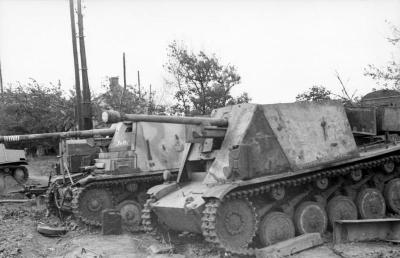 Information added by Wikimedia users.